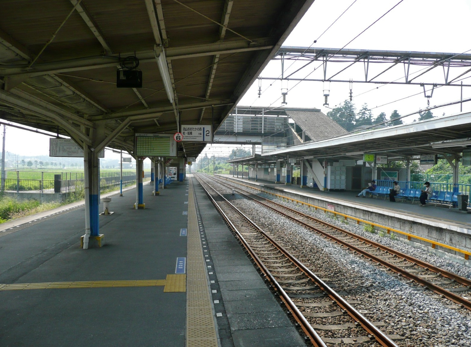 The platforms at Shimizu-kōen Station before rationalization and rebuilding